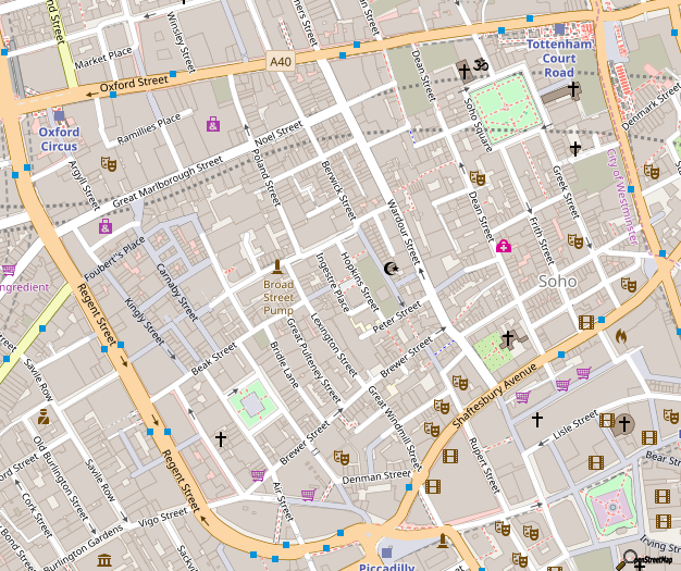 Map of Soho, London This map of London was created from OpenStreetMap project data, collected by the community. This map may be incomplete, and may contain errors. Don't rely solely on it for navigation.